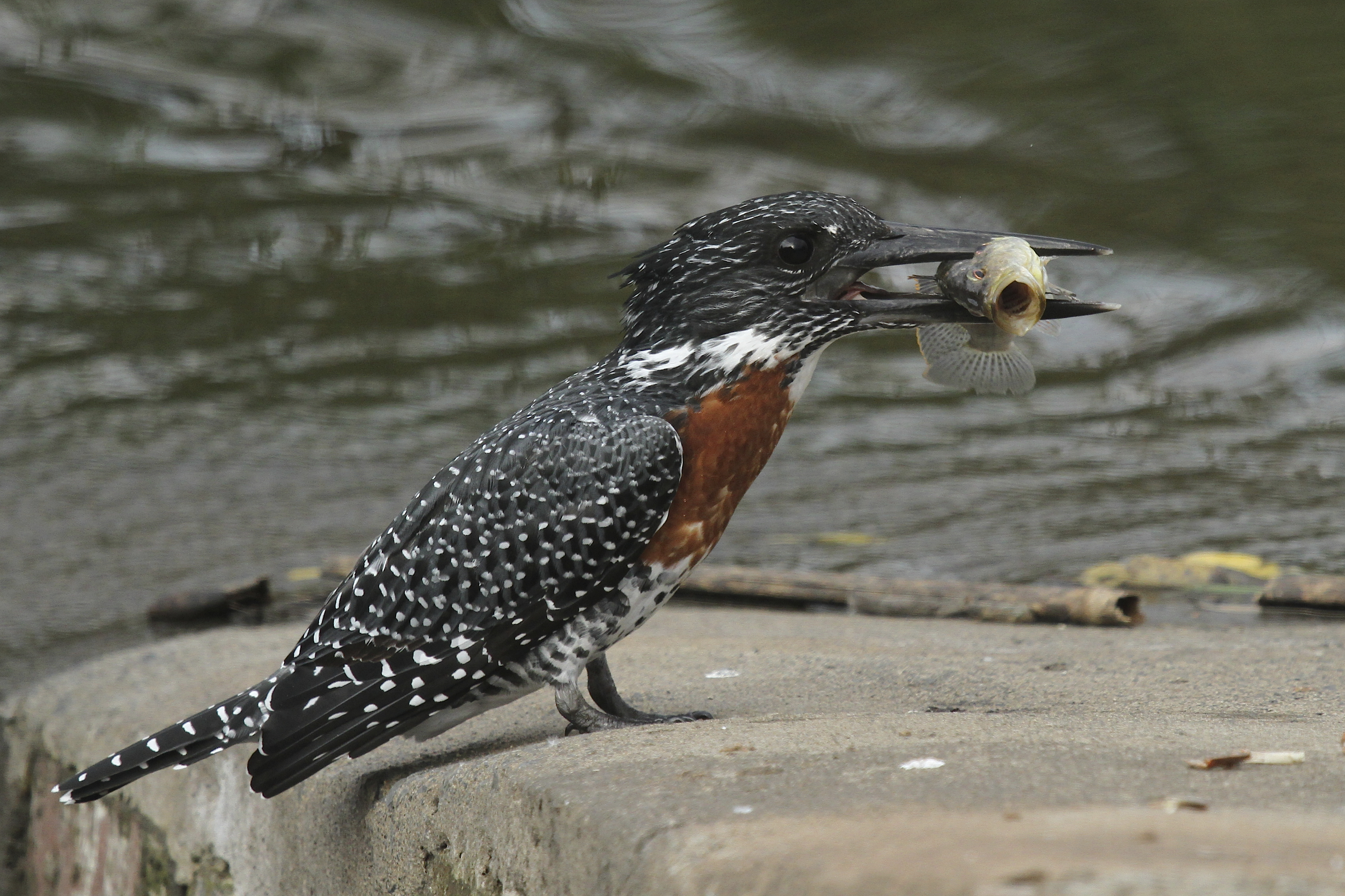 Giant Kingfisher at Rietvlei Nature Reserve, Gauteng, South Africa